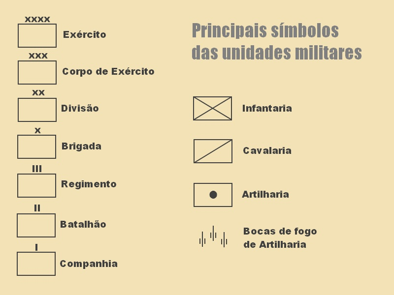 Representing several military symbols.